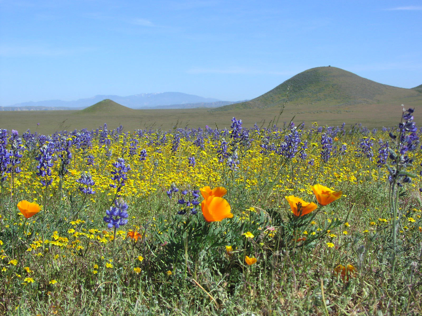 Carrizo Plain National Monument, in eastern San Luis Obispo County, central California. The flowers in the foreground include California poppies (Eschscholzia species), lupine (Lupinus species), and Monolopia species. Note that one can see Mount Pinos in the center distance, with snow on top (elevation 8,847 ft—2,697 m), and can also see the Elkhorn scarp on the left in the distance, which is the surface expression of the notorious San Andreas Fault. Taken in Spring—March 2003. PD-self